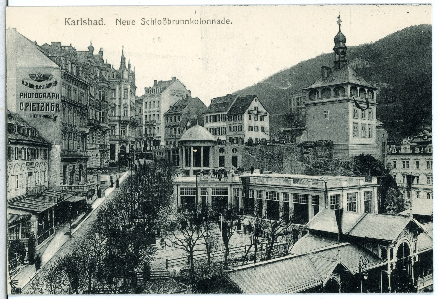 This postcard is from publisher Brück & Sohn in Meißen ( This postcard has a unique number 14542 and is available in a higher resolution at the publisher. This images was uploaded in a cooperation project between Wikipedians and the publisher.